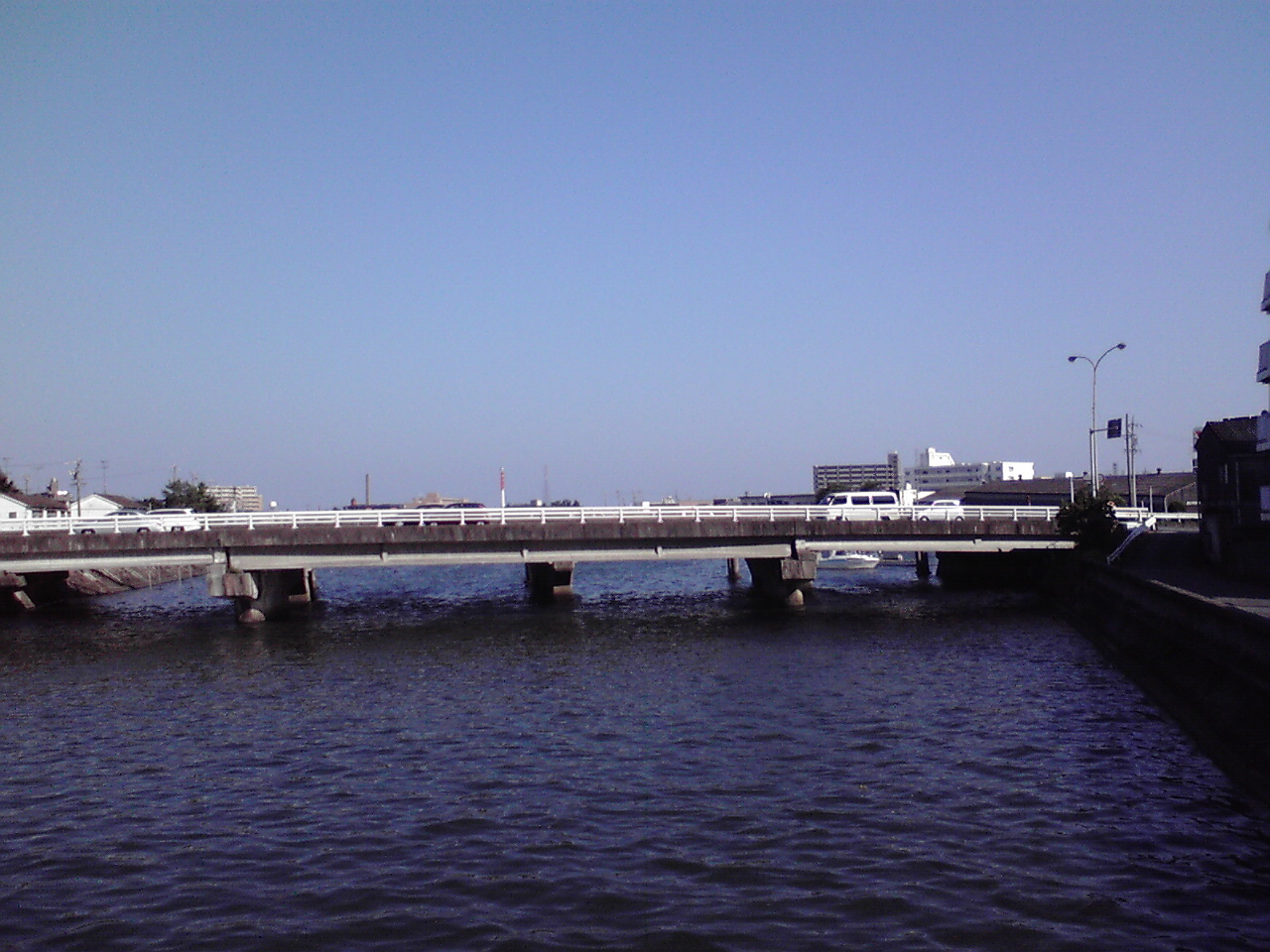 This is the Edo bridge in Tsu, Mie, Japan.